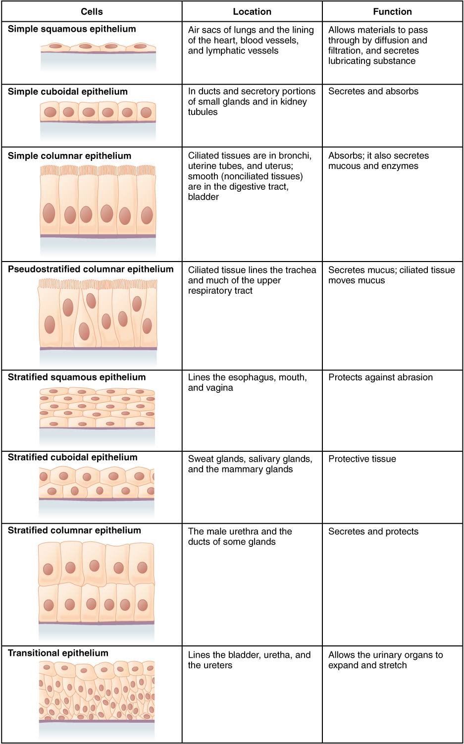 Illustration from Anatomy & Physiology, Connexions Web site. Jun 19, 2013.